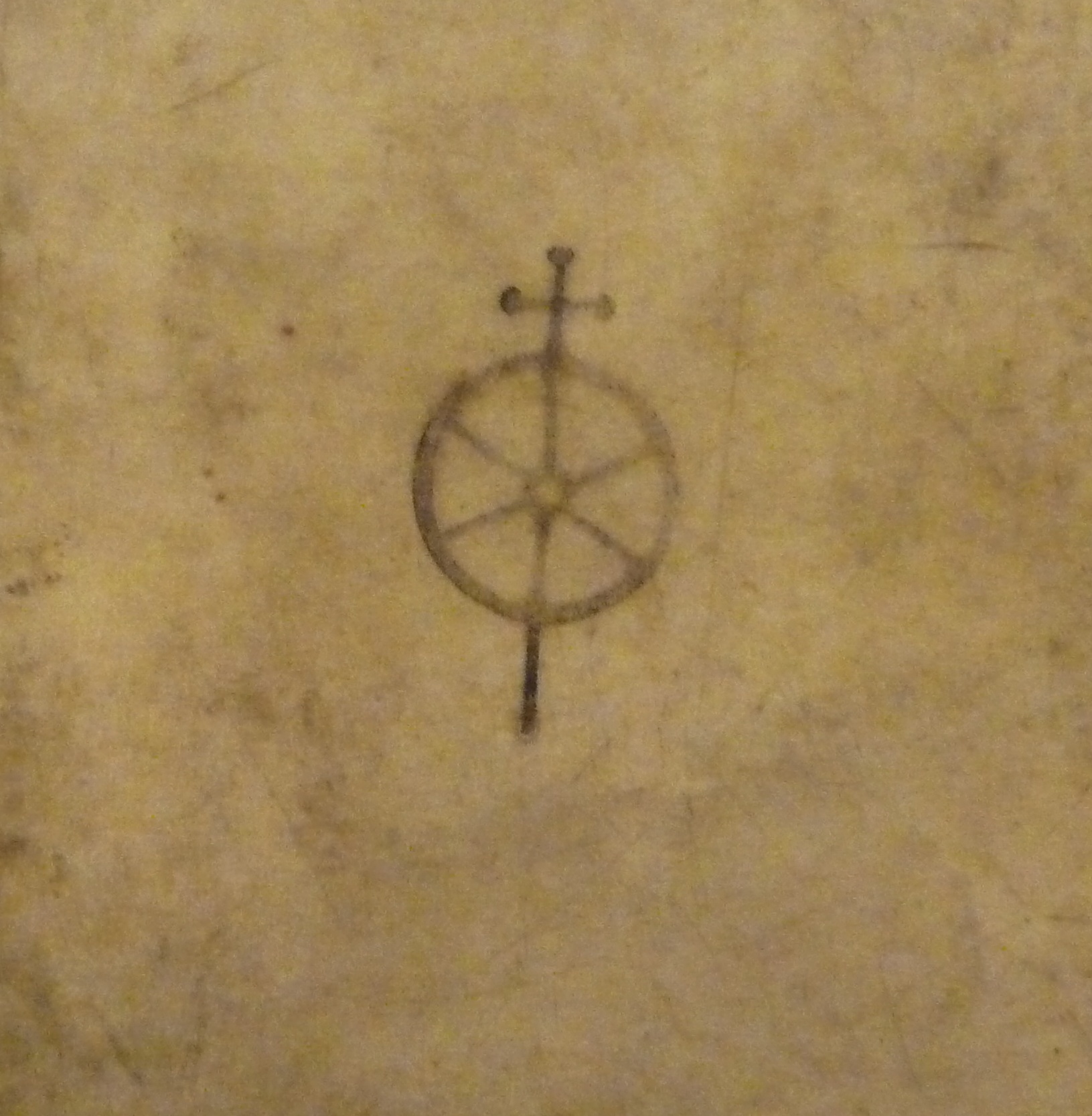 17th century Supralibros of the Lübeck City Library, showing sword and wheel, the attributes of St. Catharine of Alexandria - the library is housed in the former St. Catherine's monastery